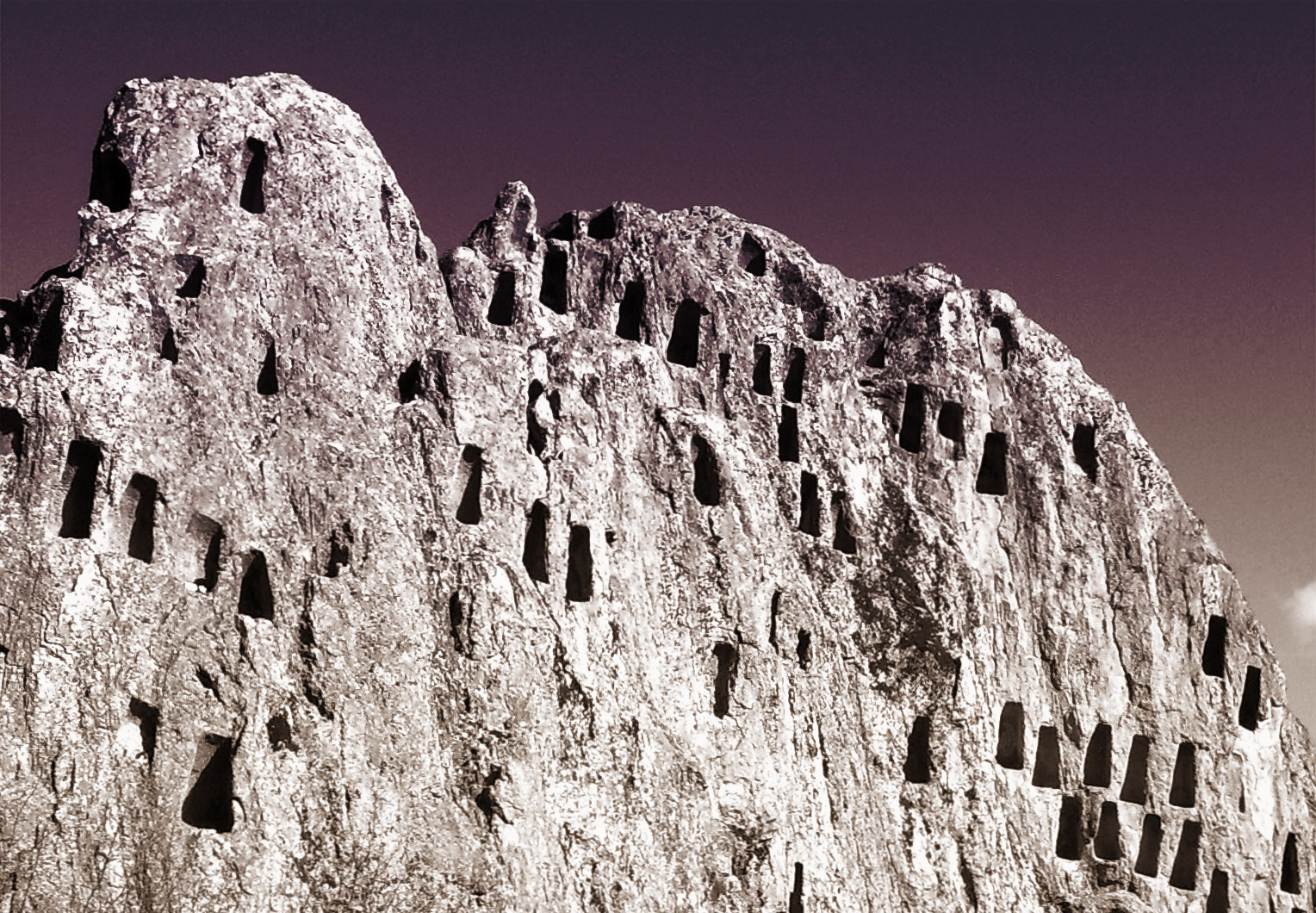 Eagle rocks closeup Ardino BG